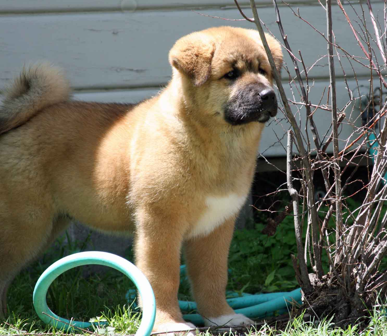 Akita Inu-Winston, 4 months old